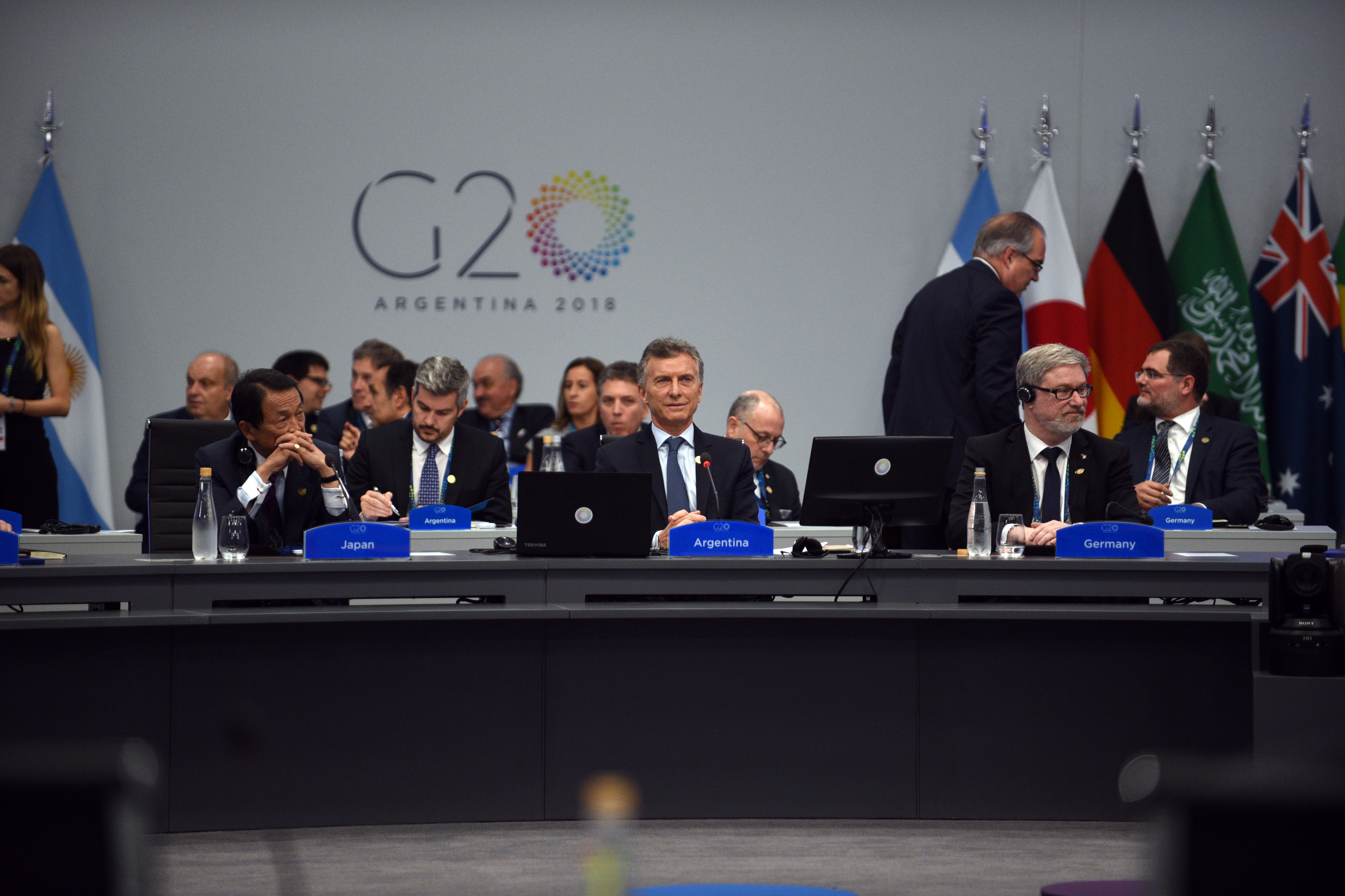 Opening remarks by President Mauricio Macri